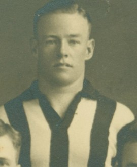 Photograph of Alec Fyfe in 1935